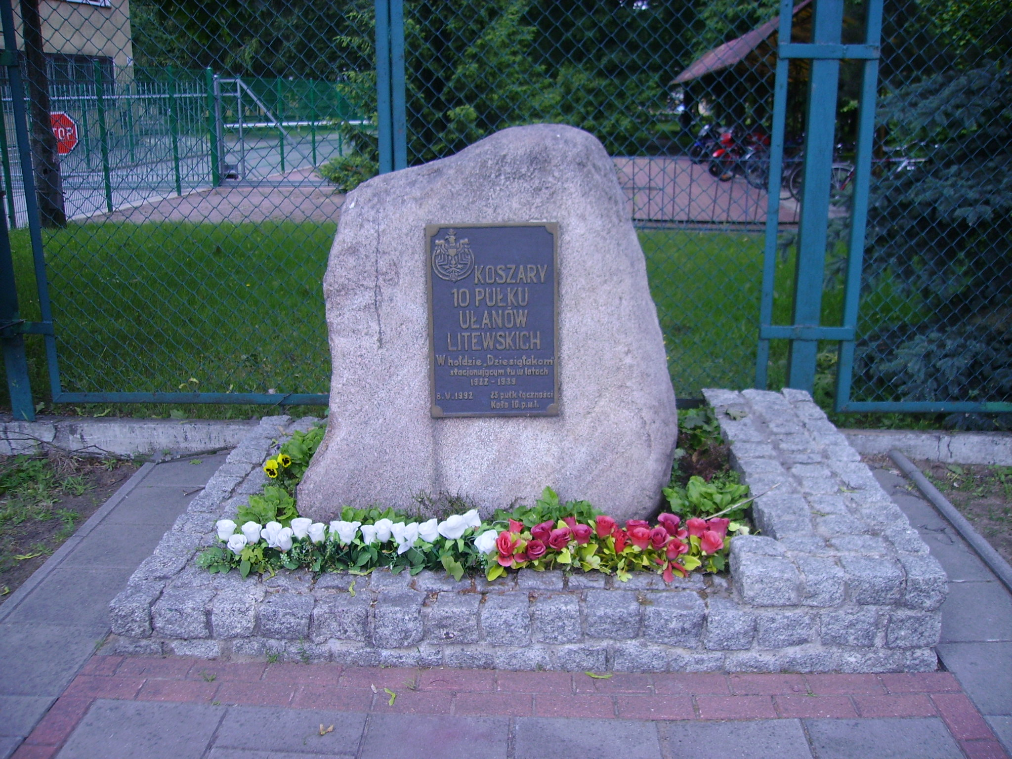 Memorial stones dedicated 10 Lithuanian Cavalry Regiment in Białystok, 70 Kawaleryjska Street.